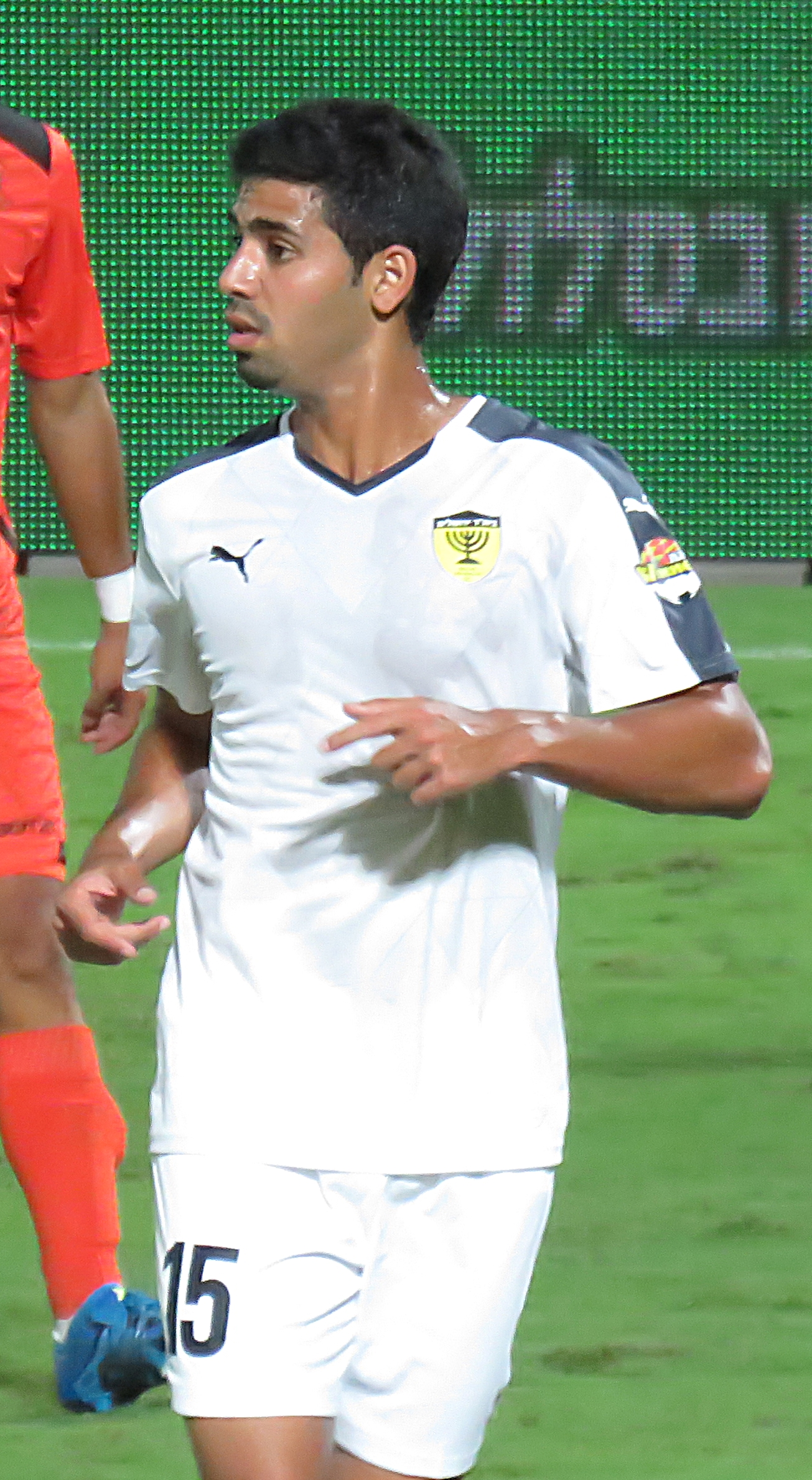 Bnei Yehuda Tel Aviv vs. Beitar Jerusalem - 19 September, 2015